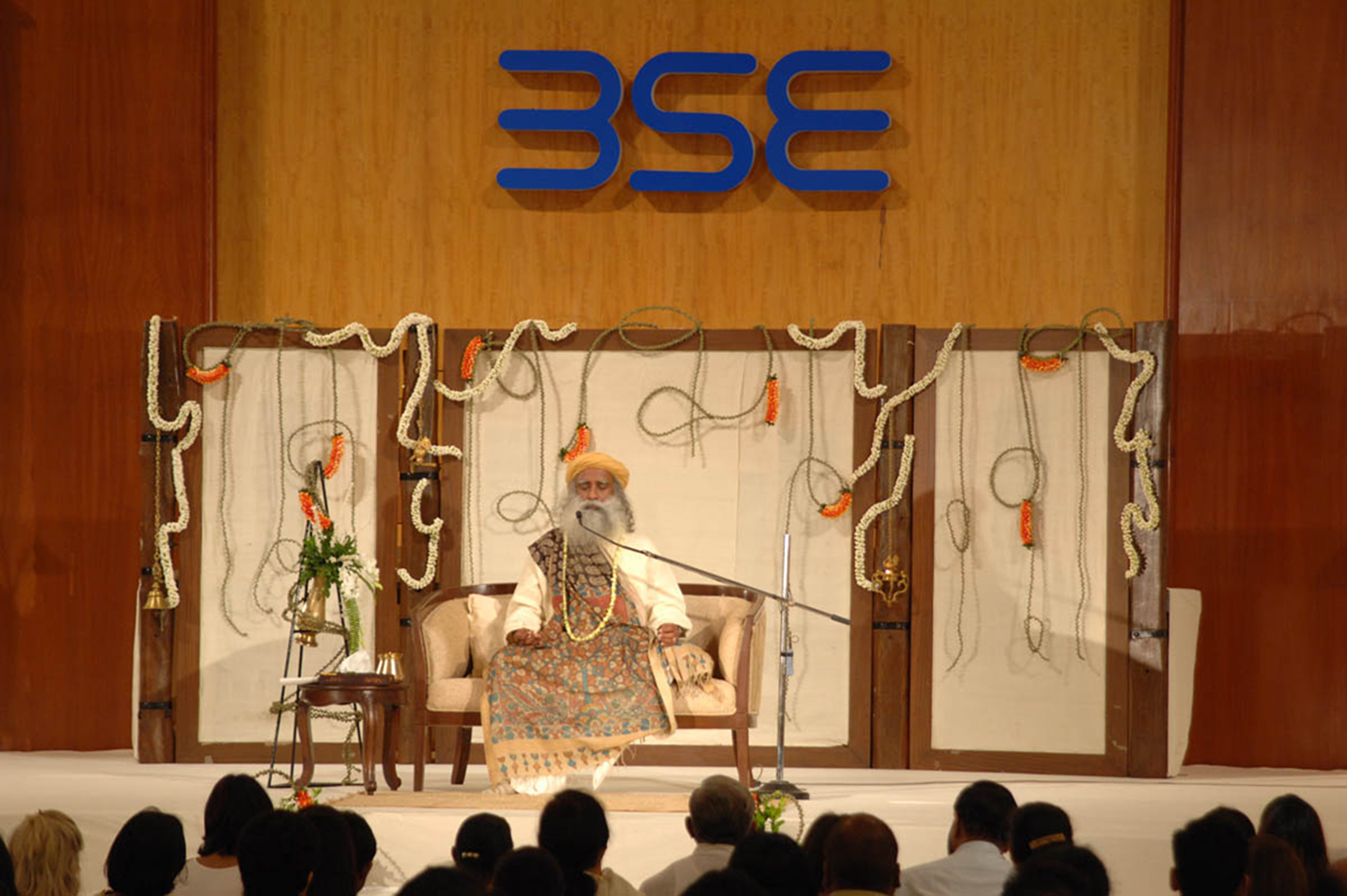 A photograph of Sadhguru conducting an Inner Engineering class at BSE Mumbai.